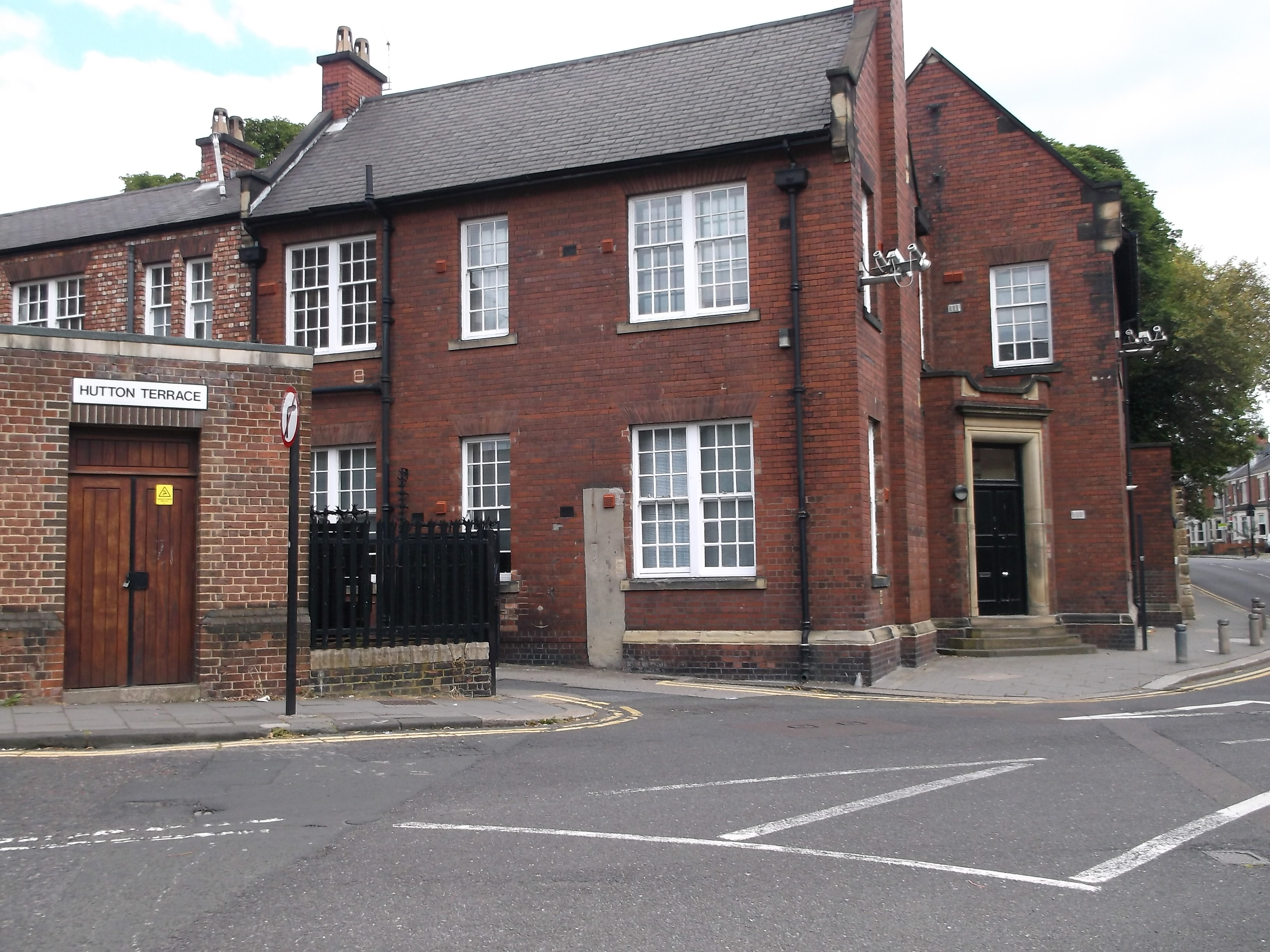 Drill Hall, Sandyford Road, Newcastle upon Tyne